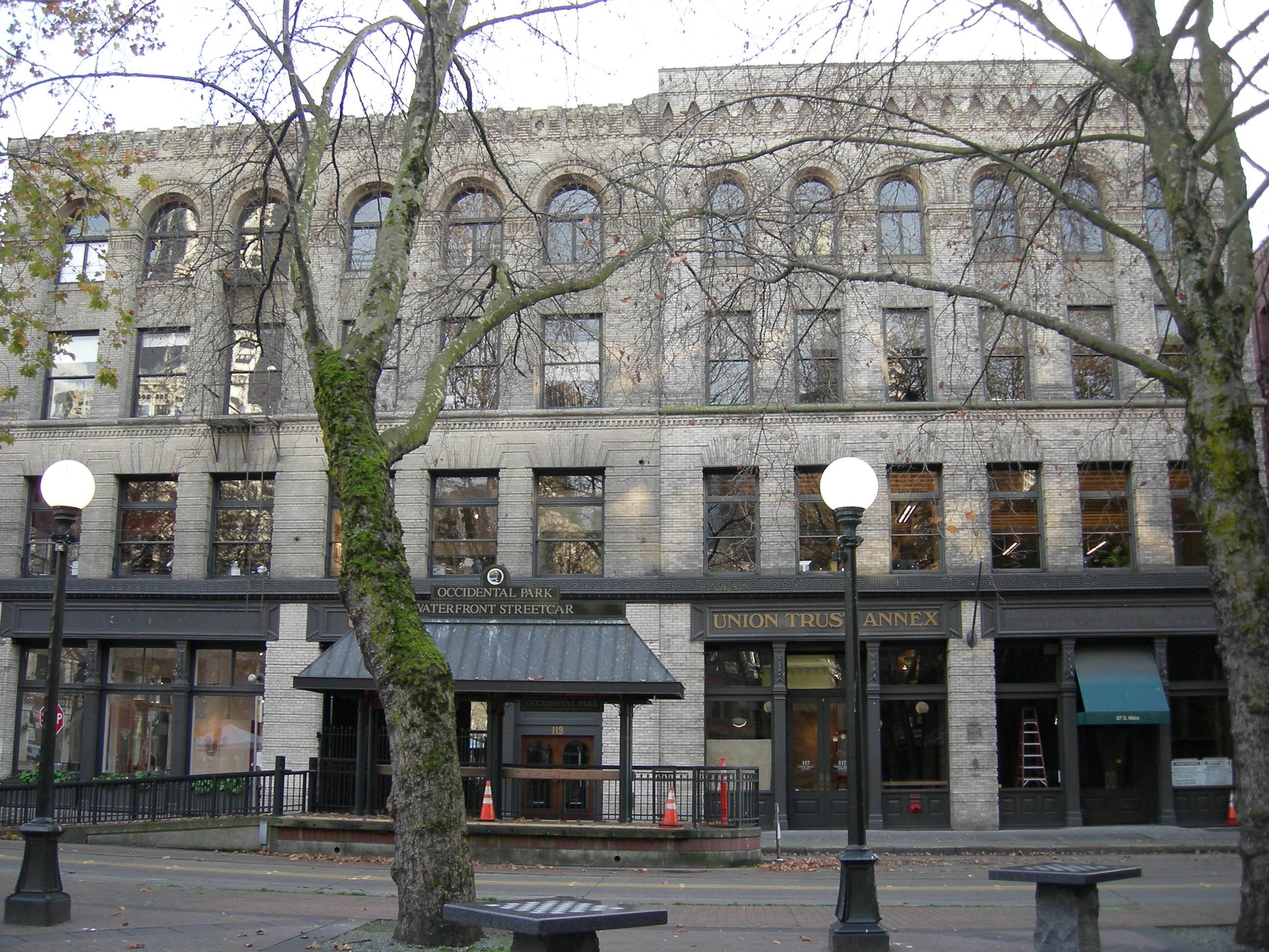 Union Trust Building (left, 119 South Main Street, built 1893) and Union Trust Annex (right, 117 South Main Street, built 1902), Pioneer Square neighborhood, Seattle, Washington, USA. This is the north face of the buildings; a Waterfront Trolley stop can be seen out front of the buildings. The west face of the Union Trust Building is along Occidental Mall, and its ground floor has housed numerous art galleries in the last few decades. For many years, the Union Trust Annex was home to the Seattle Unit of the Klondike Gold Rush National Historical Park. In the 1960s, this pair of buildings were among the first in the Pioneer Square area (or, as it was better known then, Skid Road) to be rehabilitated; architect Ralph Anderson did the rehabilitation. For more information see Summary for 119 S Main ST S / Parcel ID 5247800360, Seattle Department of Neighborhoods, for Union Trust Building and Summary for 117 S Main ST S / Parcel ID 5247800365, Seattle Department of Neighborhoods, for Union Trust Annex.